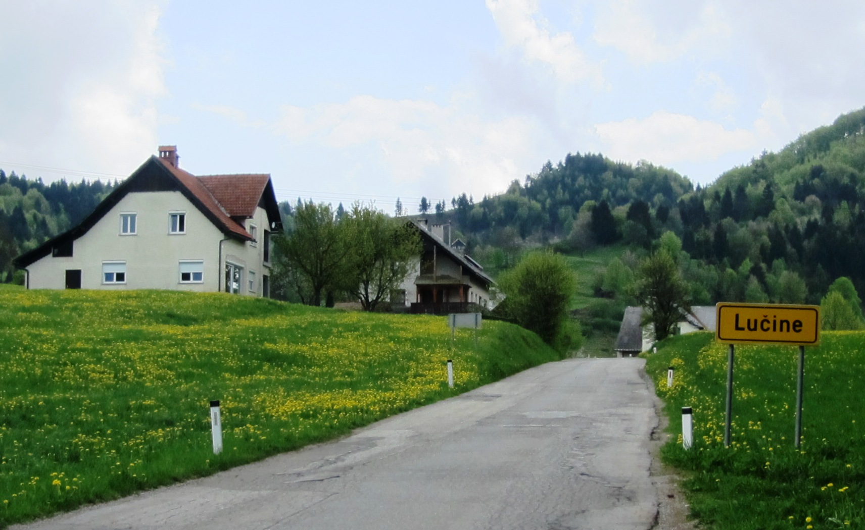 The settlement of Lučine in the Municipality of Gorenja Vas–Poljane, Slovenia